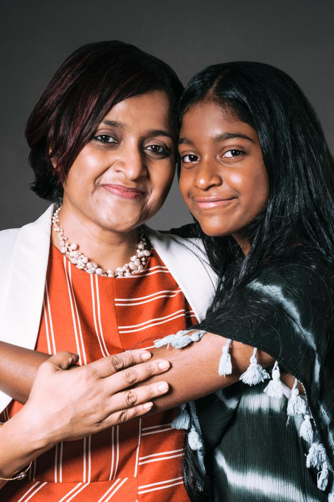 Former Foreign Minister of Maldives with her youngest daughter